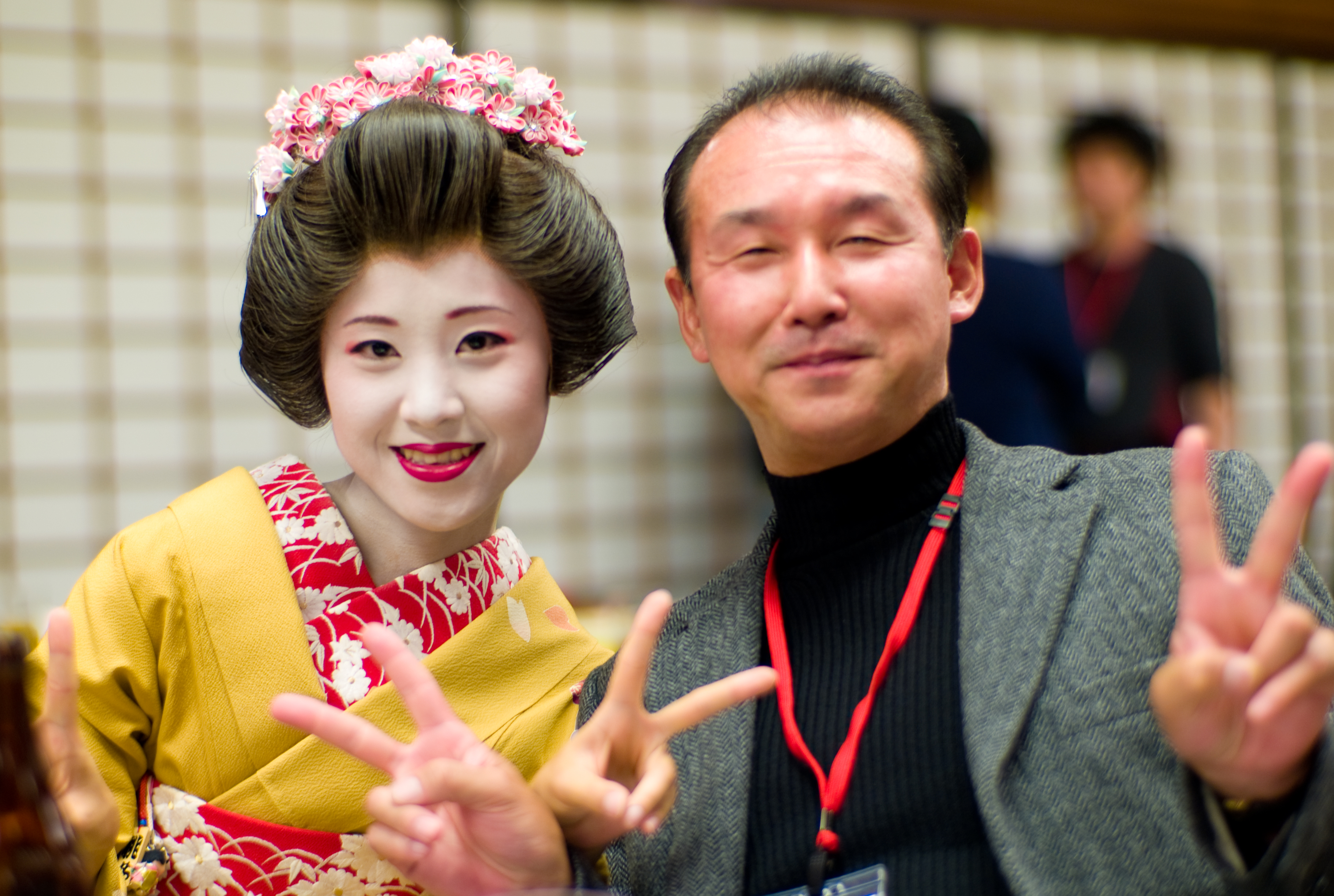 An apprentice geisha on the ozashiki in Niigata